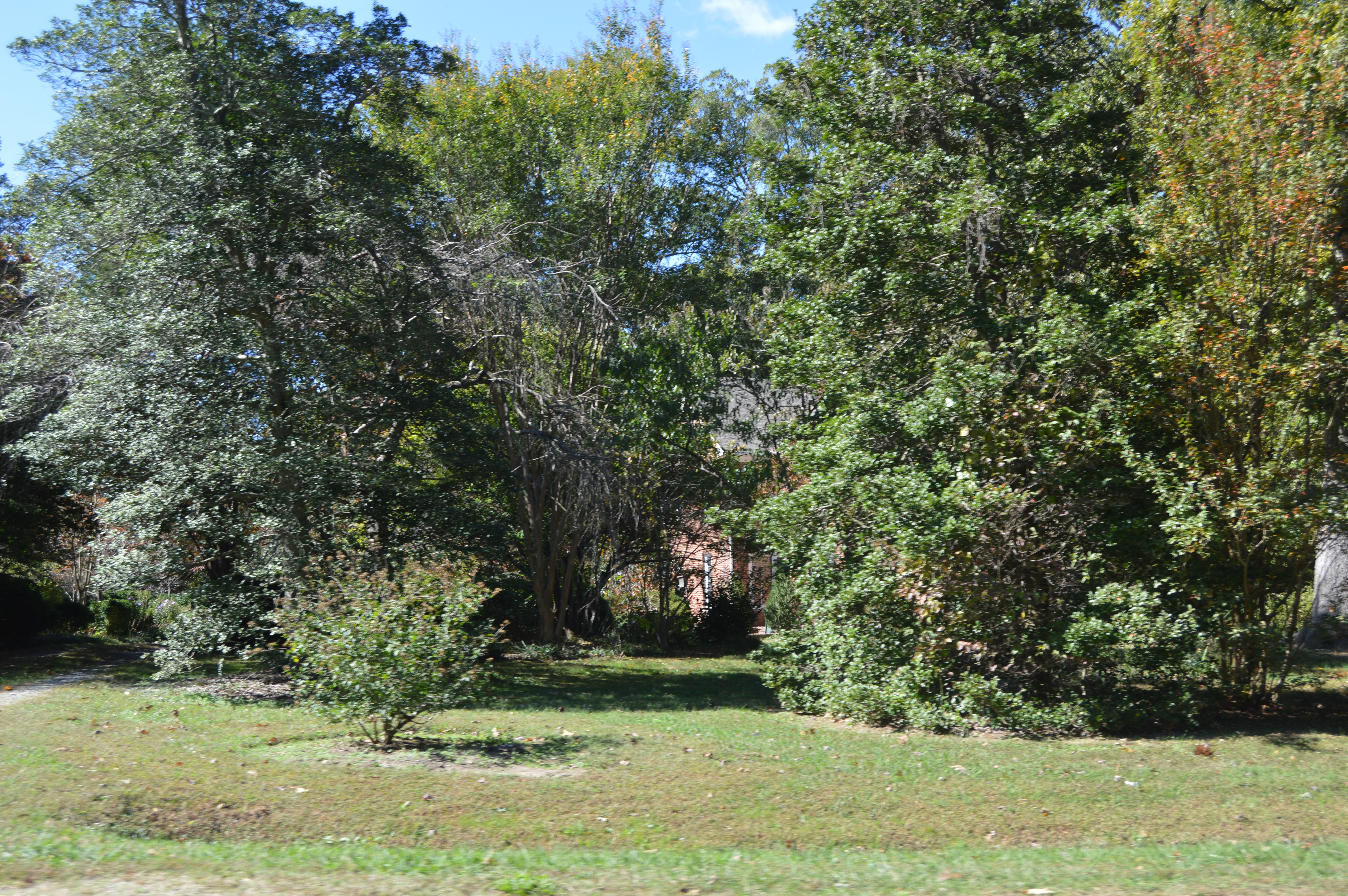 Lawn of the Merritt-Winstead House, located at 7891 U.S. Route 501 north of Roxboro in Person County, North Carolina, United States. The house is listed on the National Register of Historic Places.